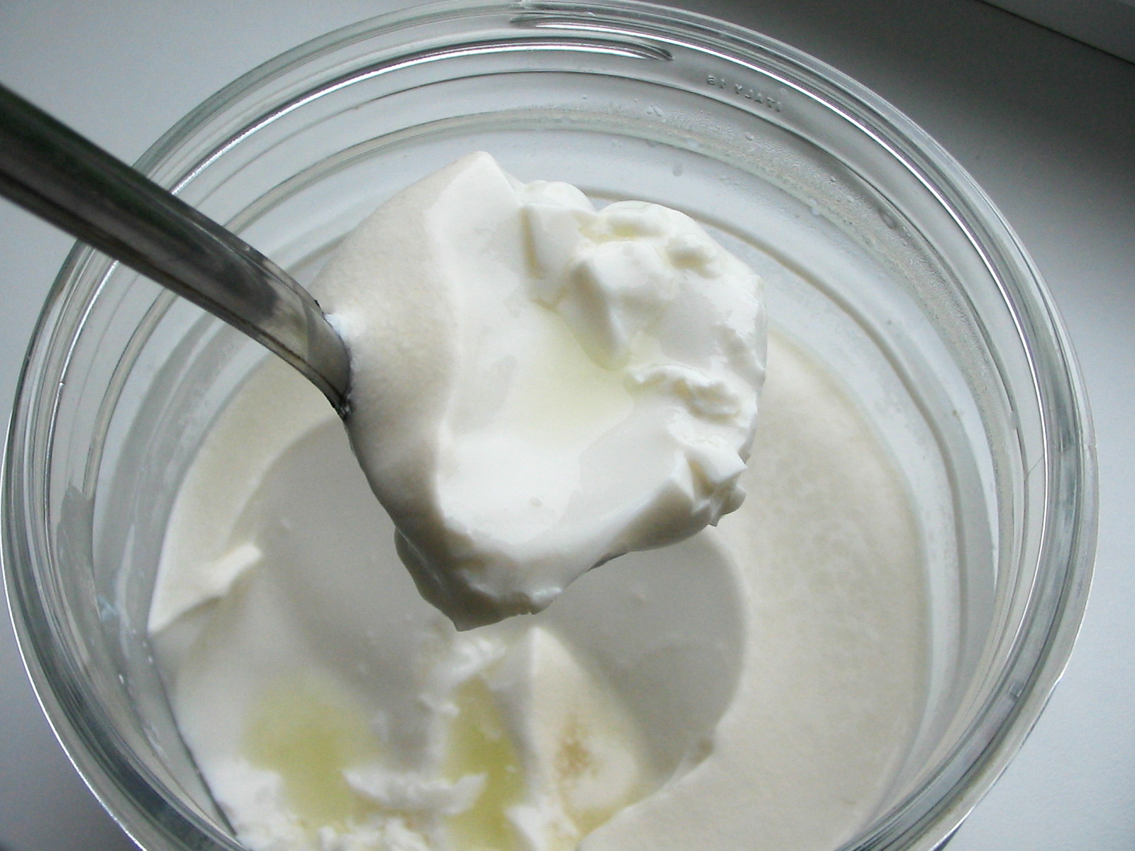 Sour clotted milk